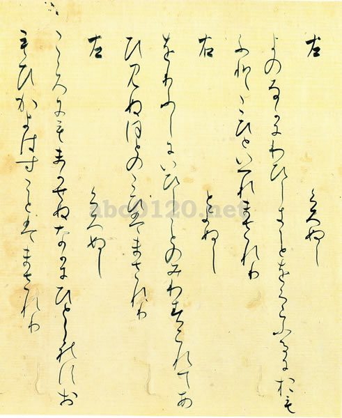 Poetry Contest (歌合, utaawase) ten volume edition, vol. 6